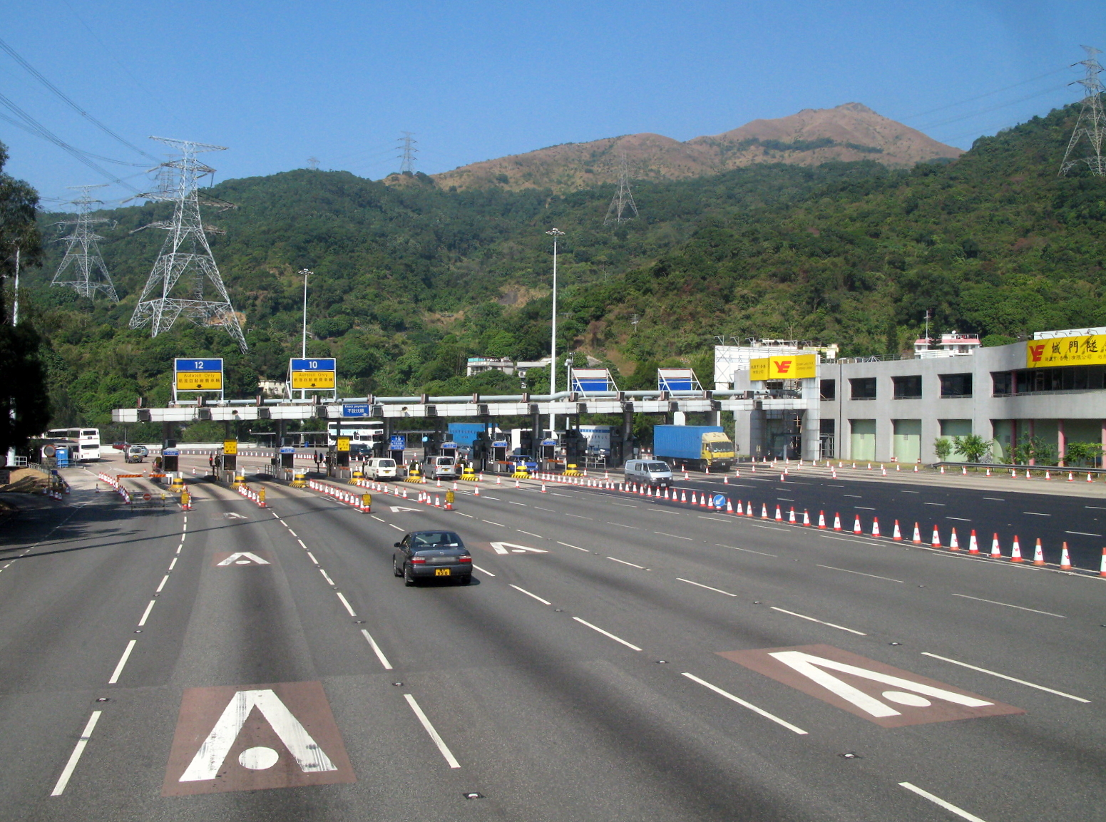 HK Shing Mun Tunnels Tolls